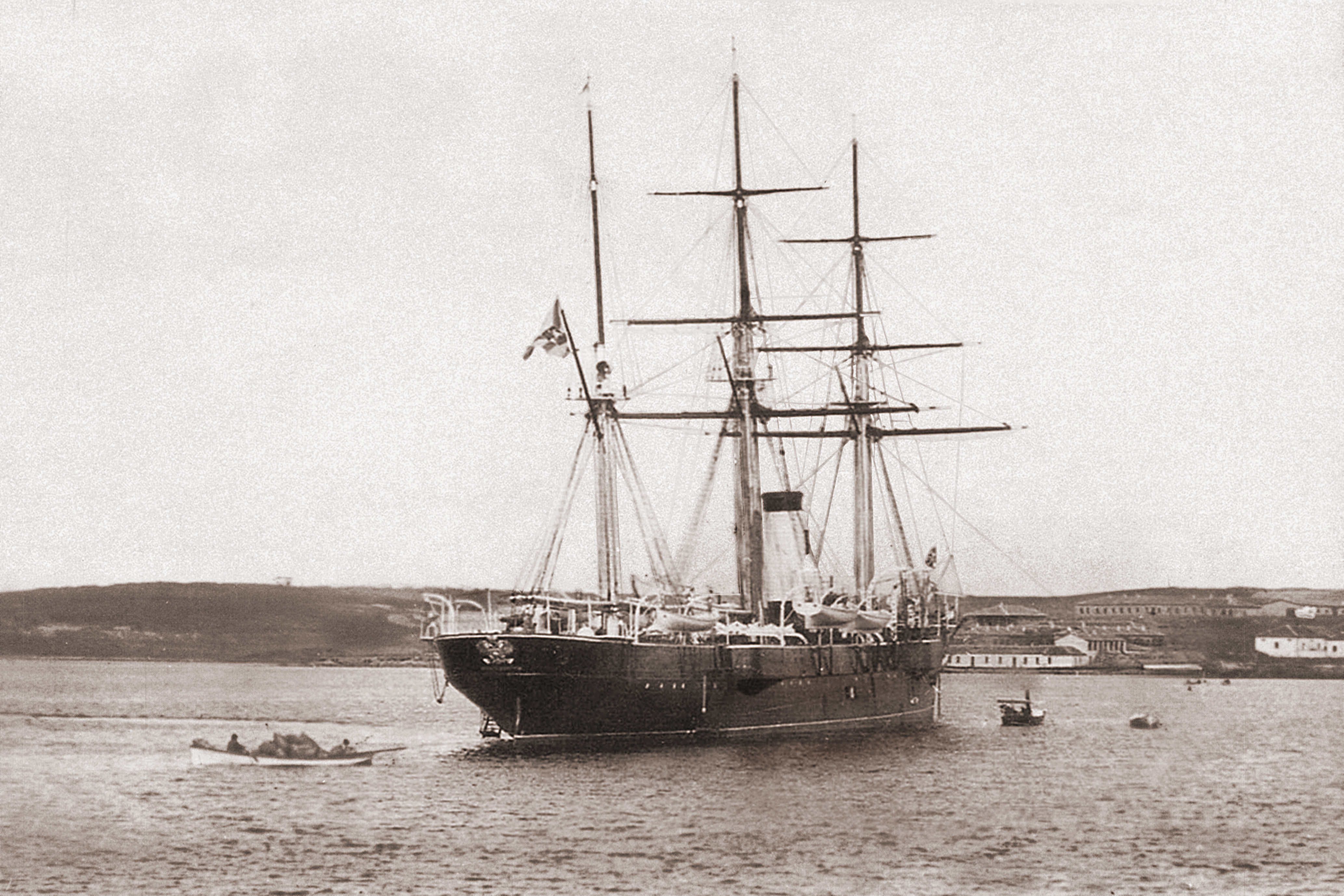 Imperial Russian cruiser Pamiat' Merkuriia.